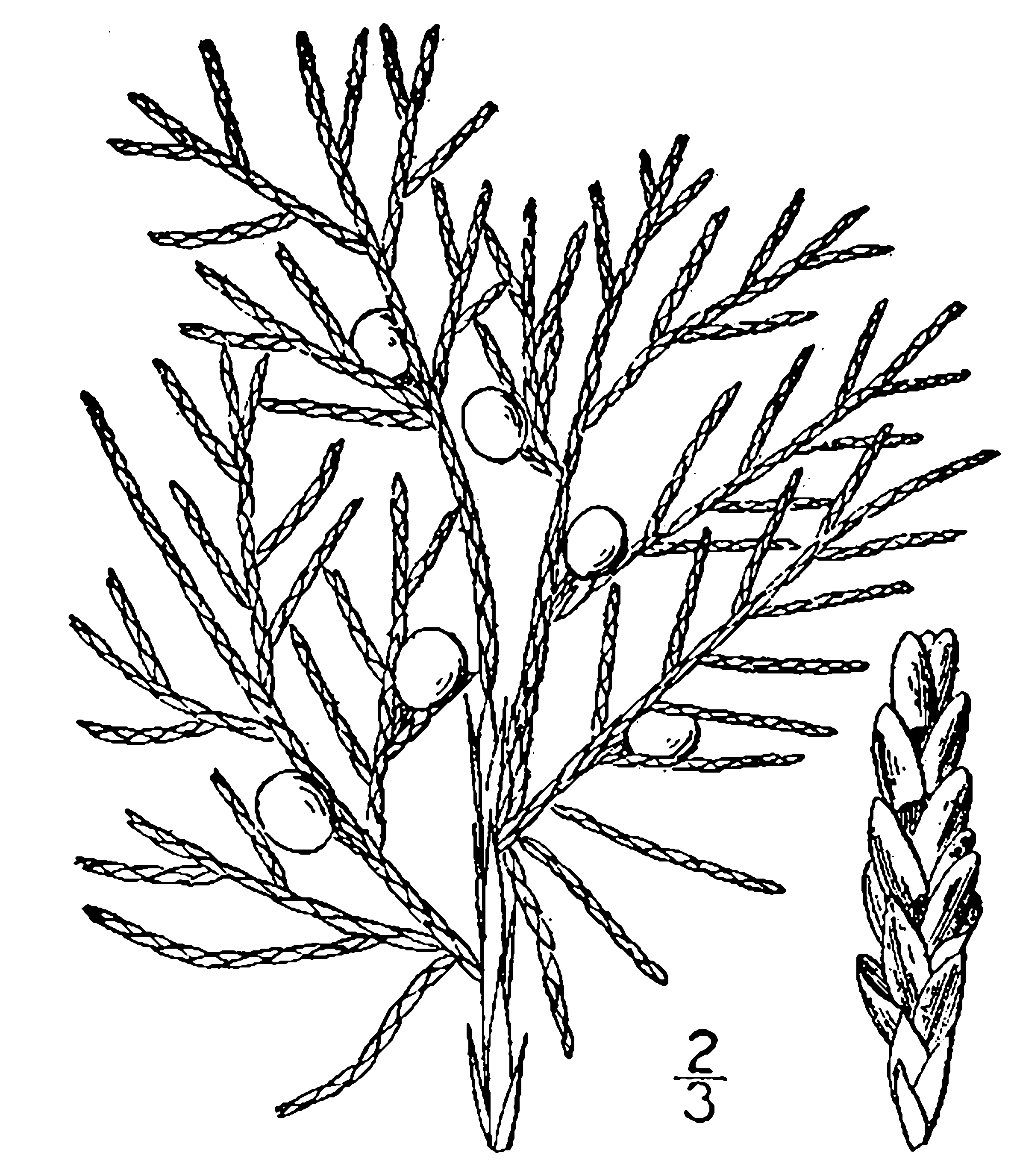 Eastern Redcedar. Drawing.